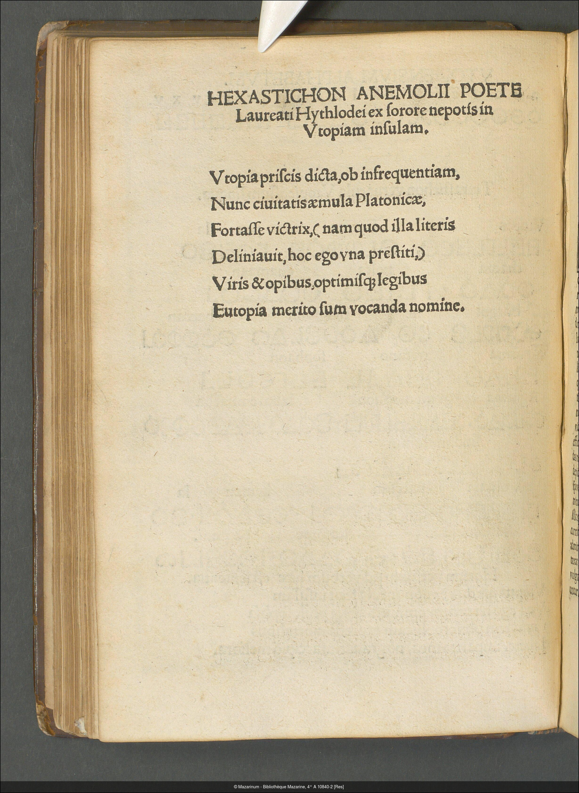 This is the poem written by Anemolius (i.e. Th. More) in Thomas More's Utopia (1516, first edition)